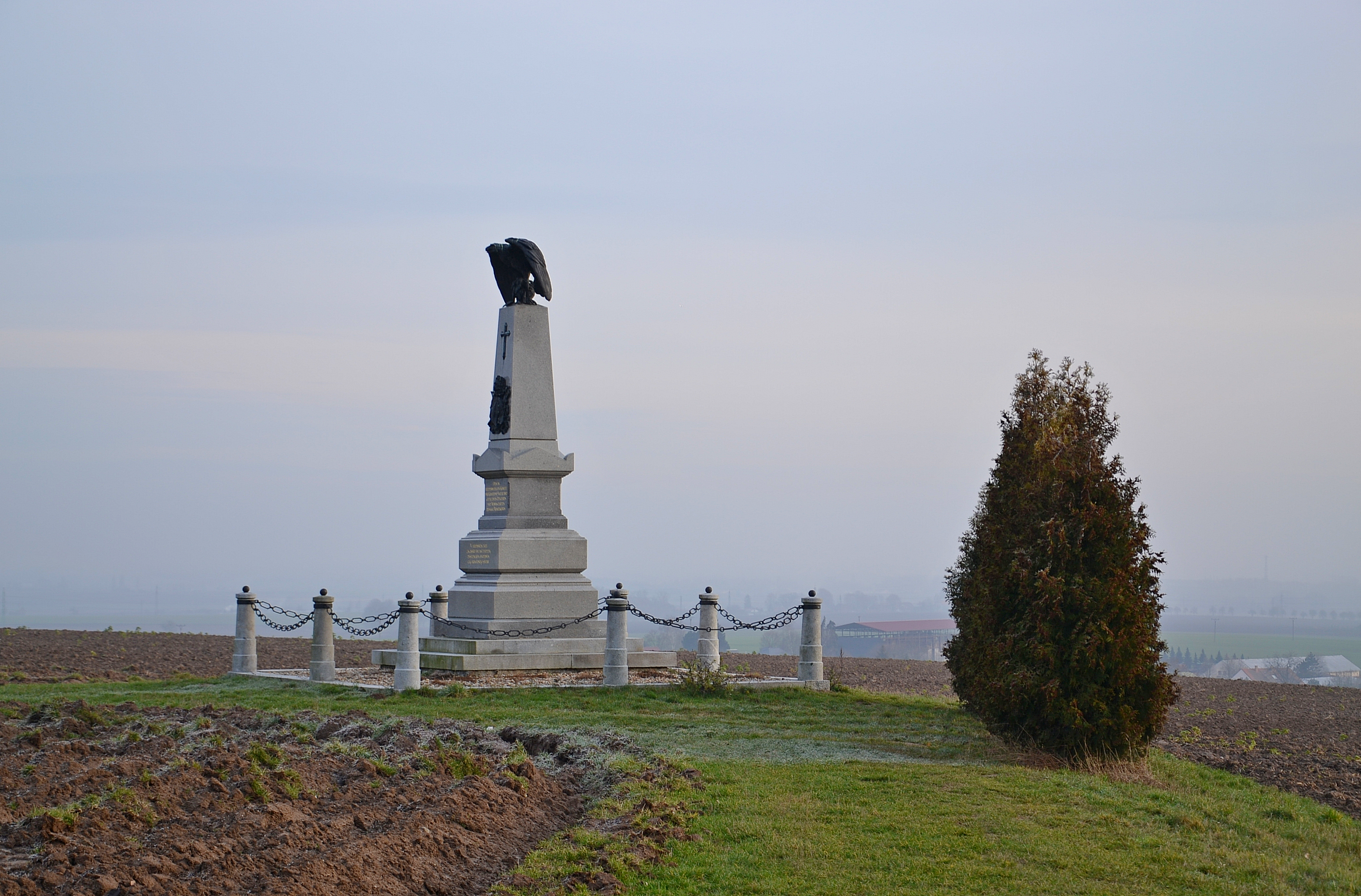 Chlum, Czech Republic - Battle of Königgrätz gravestone